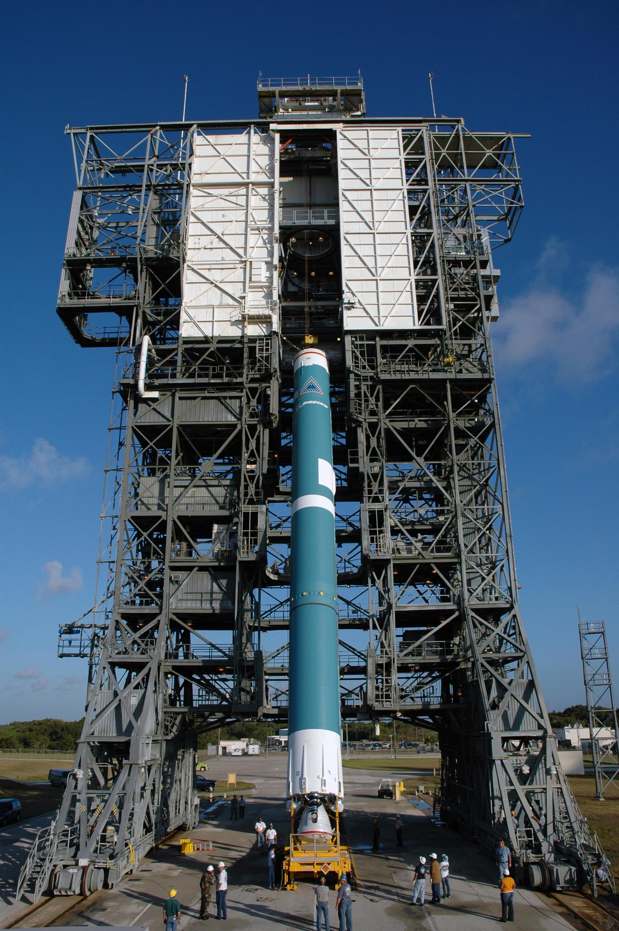 KENNEDY SPACE CENTER, FLA. – The first stage of the Boeing Delta II 7925-10L rocket, slated to launch NASA's Solar Terrestrial Relations Observatory (STEREO), is lifted into a vertical position for installation into the mobile service tower at Pad 17B on Cape Canaveral Air Force Station. Preparations are under way for a liftoff no earlier than July 22. STEREO consists of two spacecraft whose mission is the first to take measurements of the sun and solar wind in 3-D. This new view will improve our understanding of space weather and its impact on the Earth.